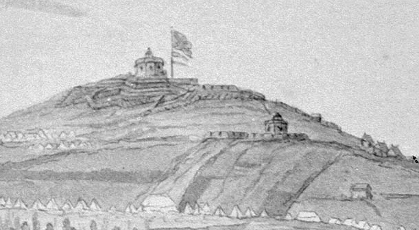 South Aspect of Halifax from near Point Pleasant Park, ca. 1780 Inset